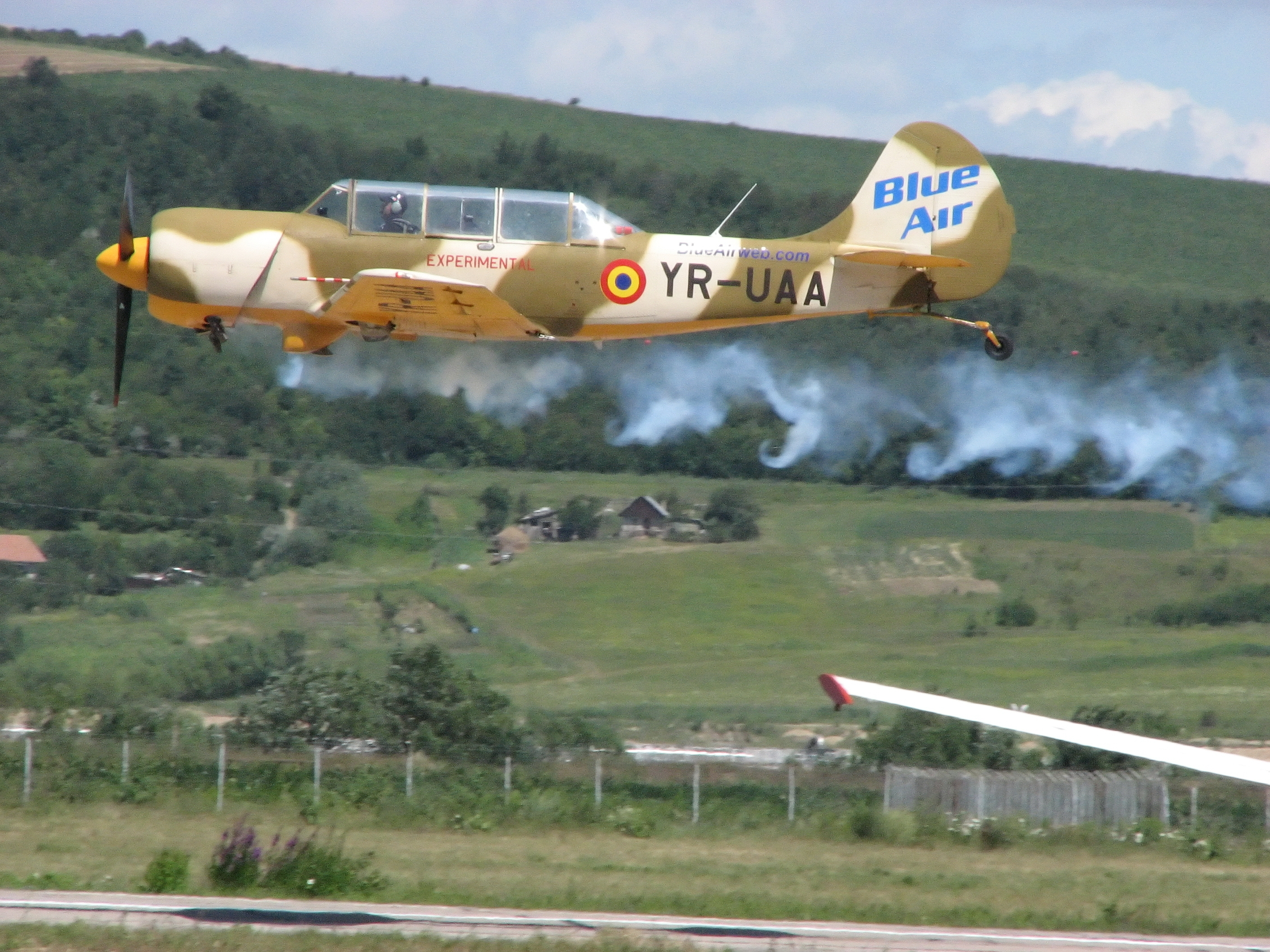 Yak-52TW aircraft (registration number YR-UAA), at an Air Show near Cluj-Napoca, in 2007